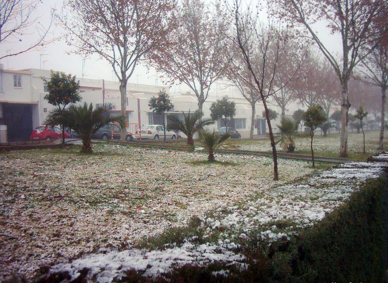 Snow in Écija